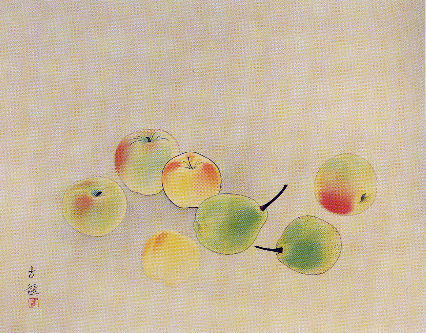 Kobayashi Kokei: Fruit, 1910. Ink and color on paper, 55x70 cm. Yamanate Museum of Art, Tokyo.